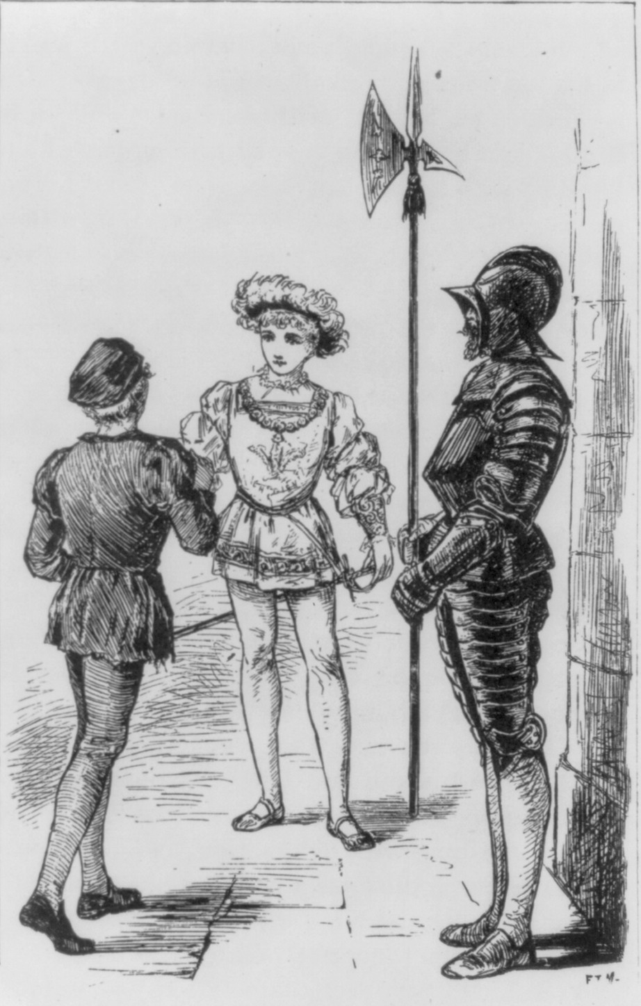 Tom's Meeting with the Prince. Illus. in: Mark Twain, The Prince and the Pauper, 1st edition, 1881, p. 20.